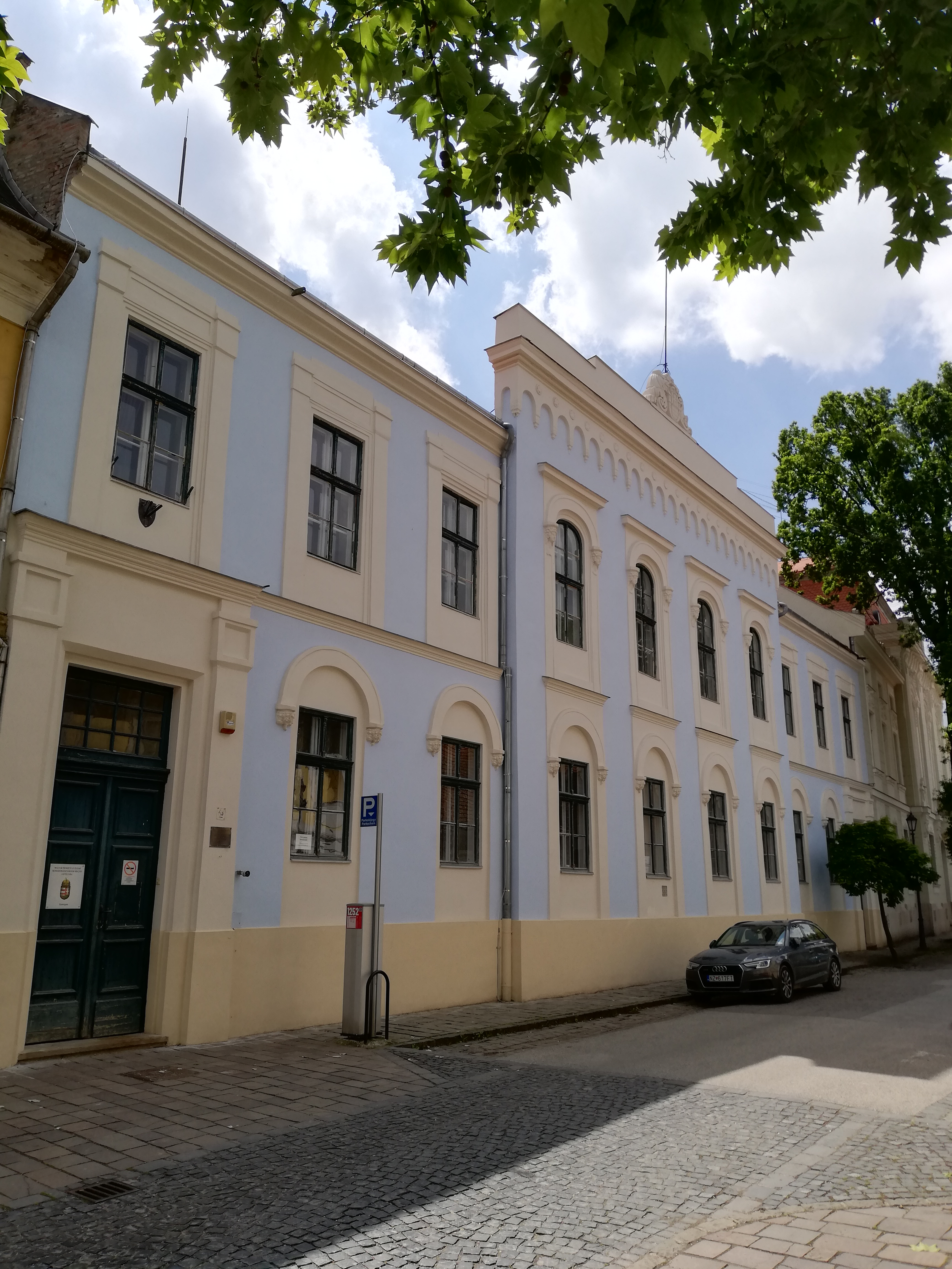 K-E Megyei Levéltár, Esztergom, Deák Ferenc utca